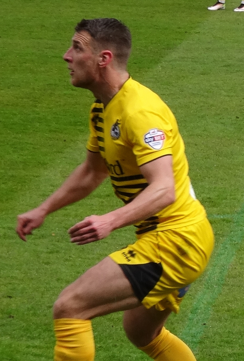 Lee Brown playing for Bristol Rovers against York City at Bootham Crescent, York on 30 April 2016